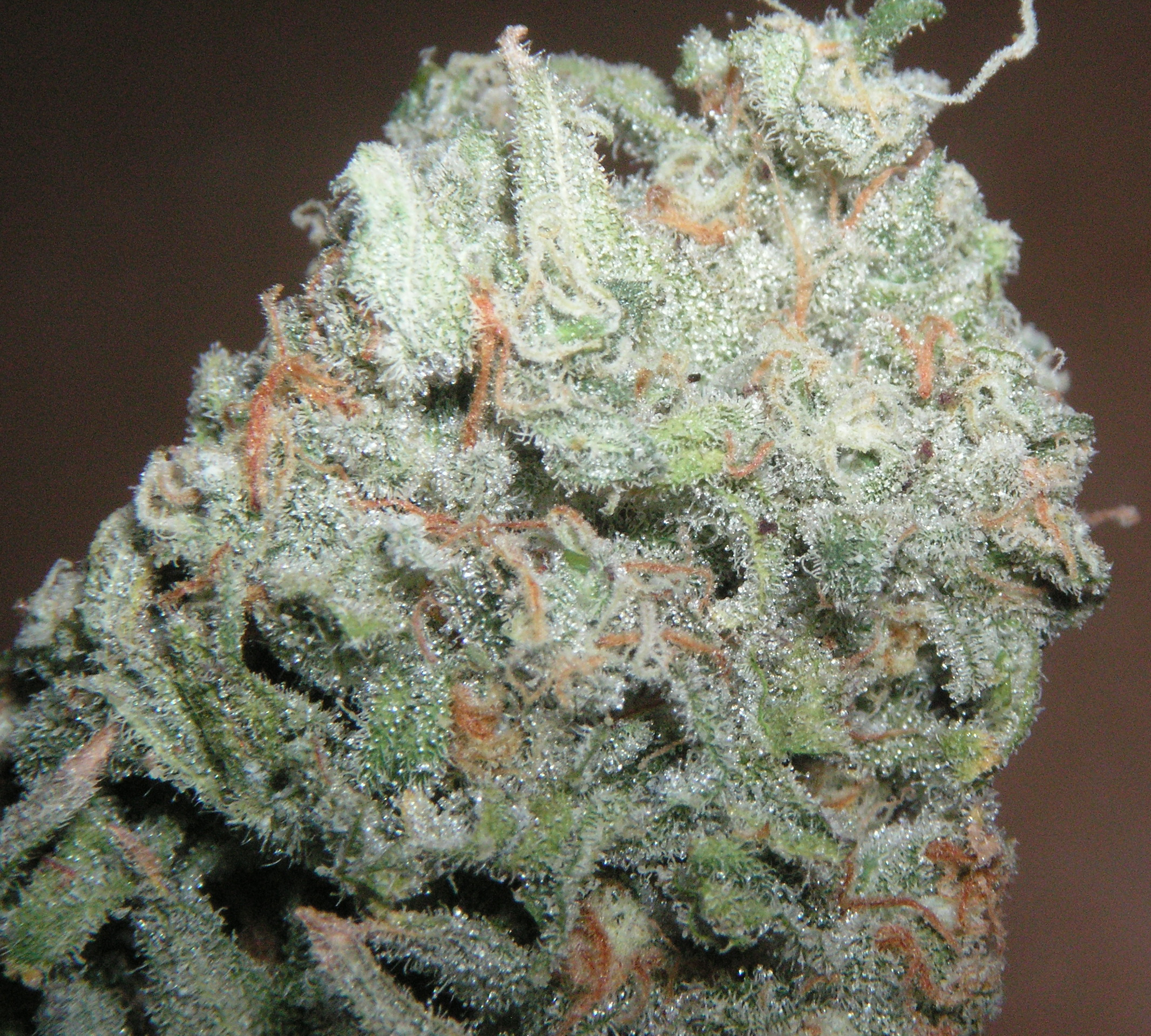 The infamous Trainwreck strain